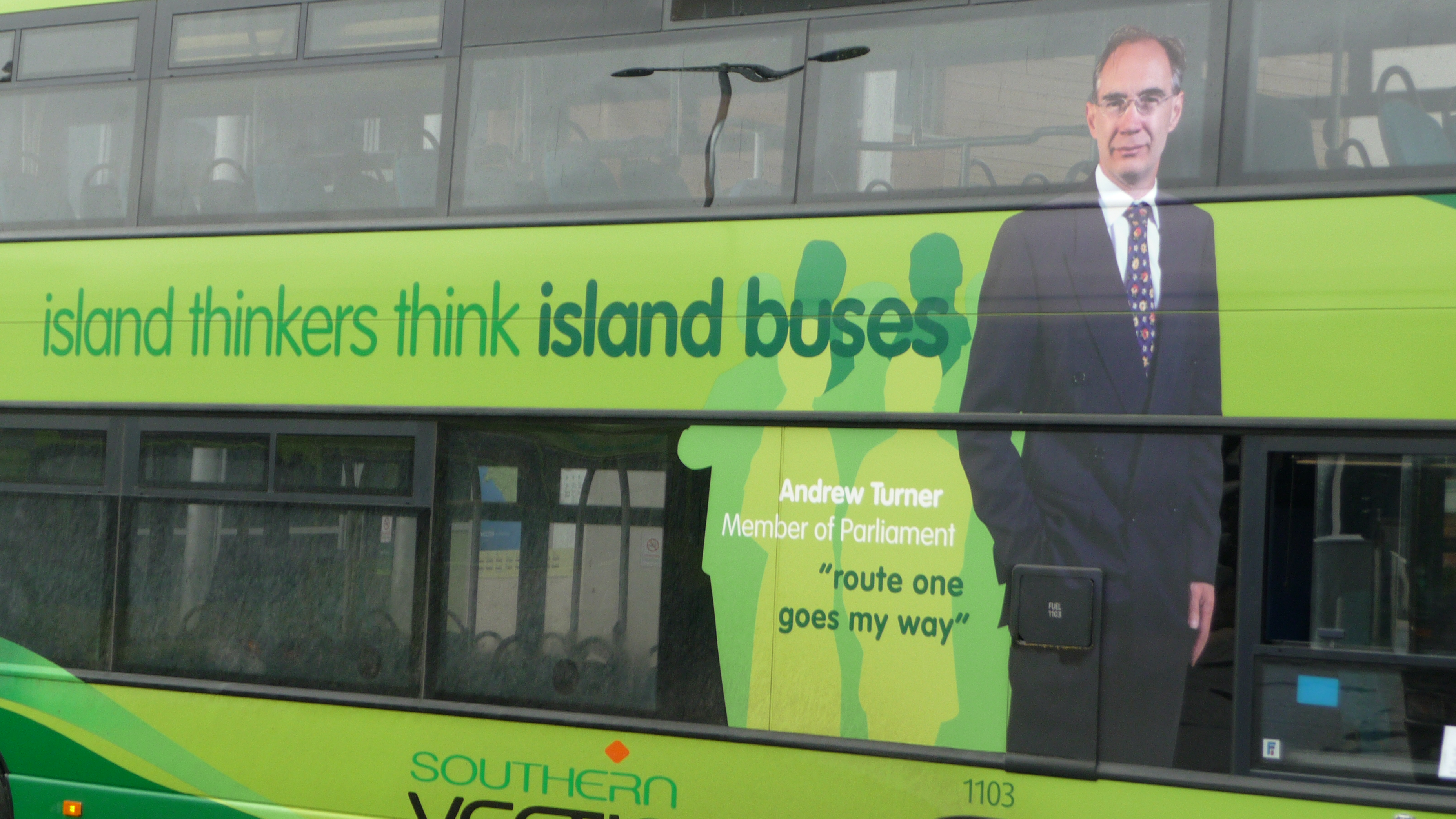 Southern Vectis 1103 Blackgang Chine (HW08 AOS), a Scania OmniCity, in Newport bus station on route 9. This shows the island thinker branding, 1103 featuring island MP Andrew Turner.